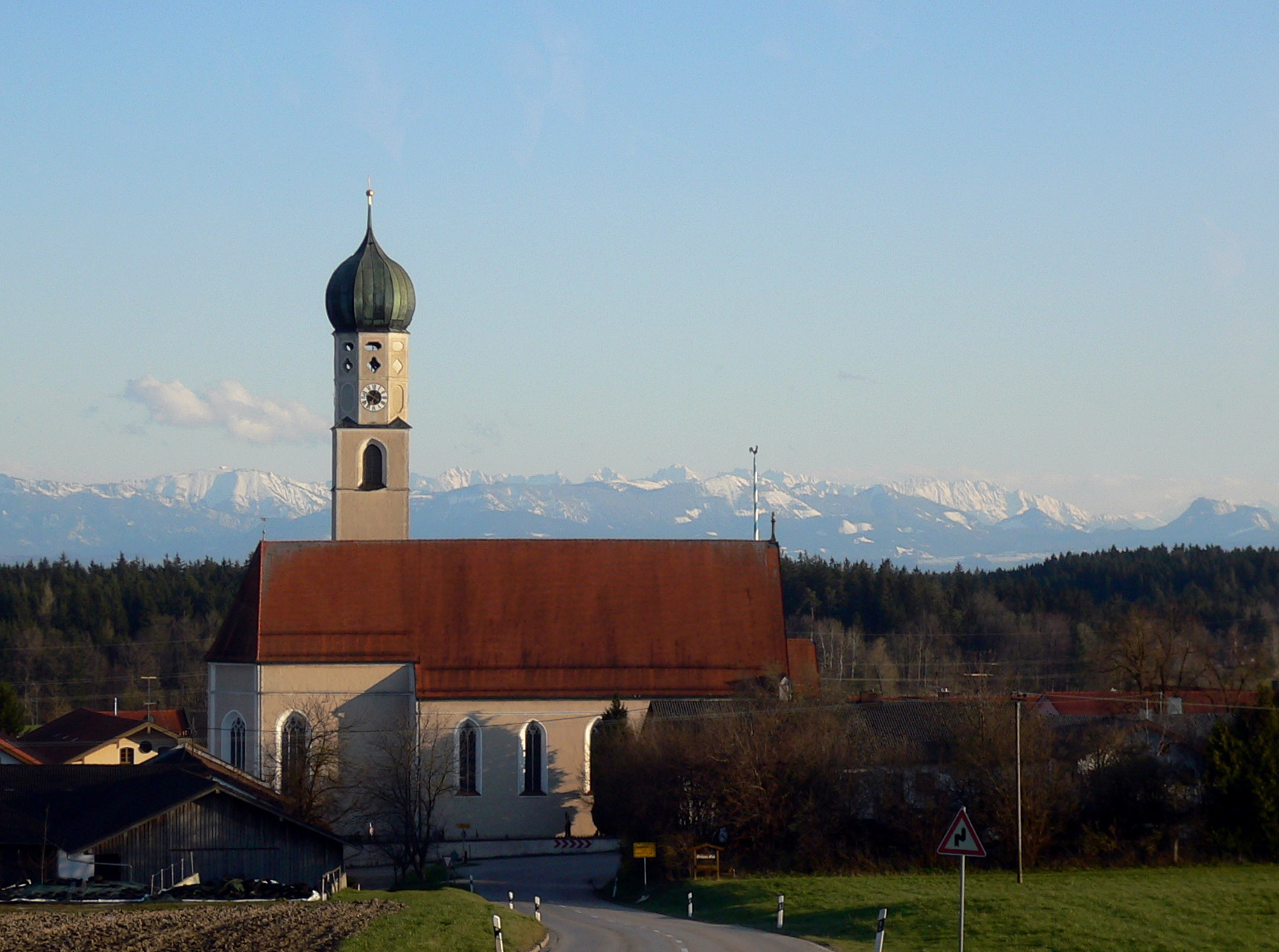 Rechtmehring, Germany - Pfarrkirche St. Korbinian